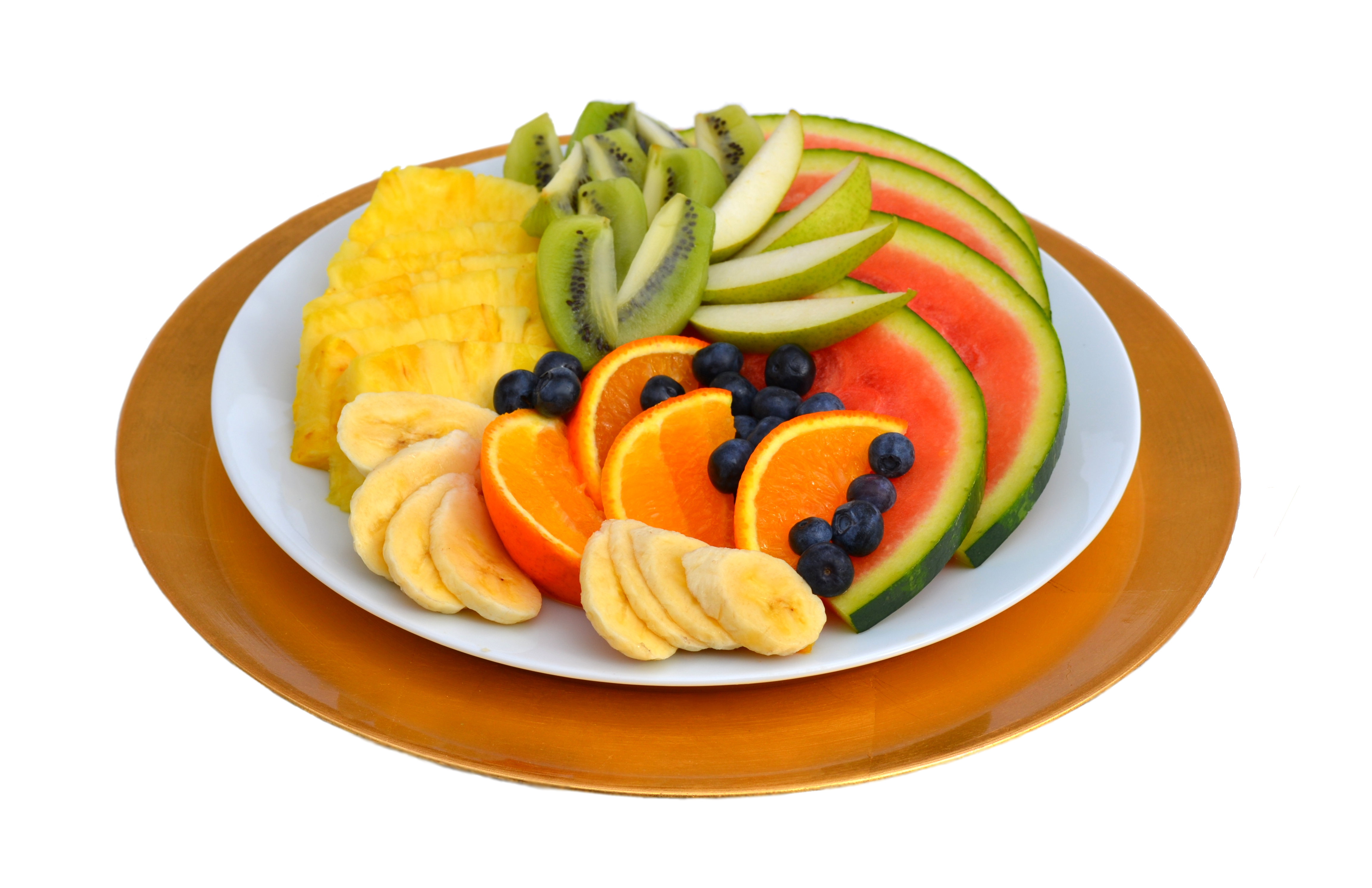 pineapple, banana, kiwi, pear, orange, blueberries, and watermelon